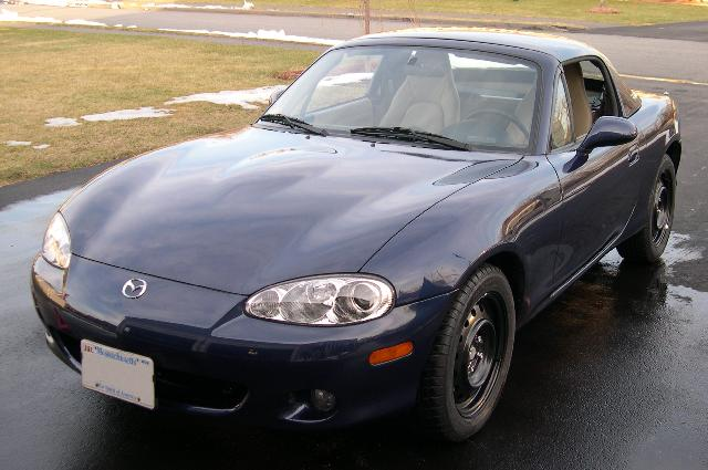 2003 Mazda MX-5 Miata LS with hardtop